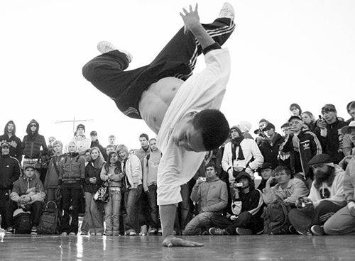 A b-boy performing at Street Summit 2006 in Moscow.